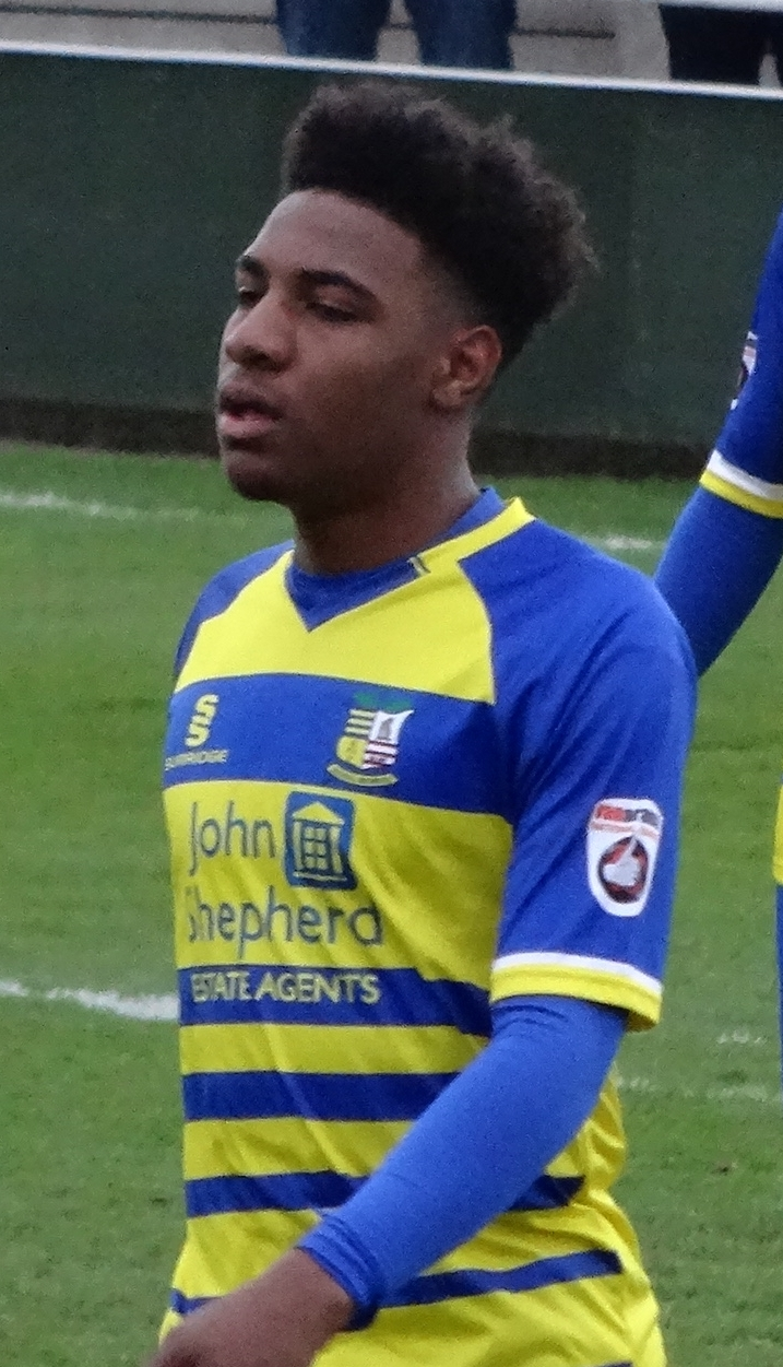 Oladapo Afolayan playing for Solihull Moors against North Ferriby United at Grange Lane, North Ferriby on 18 March 2017